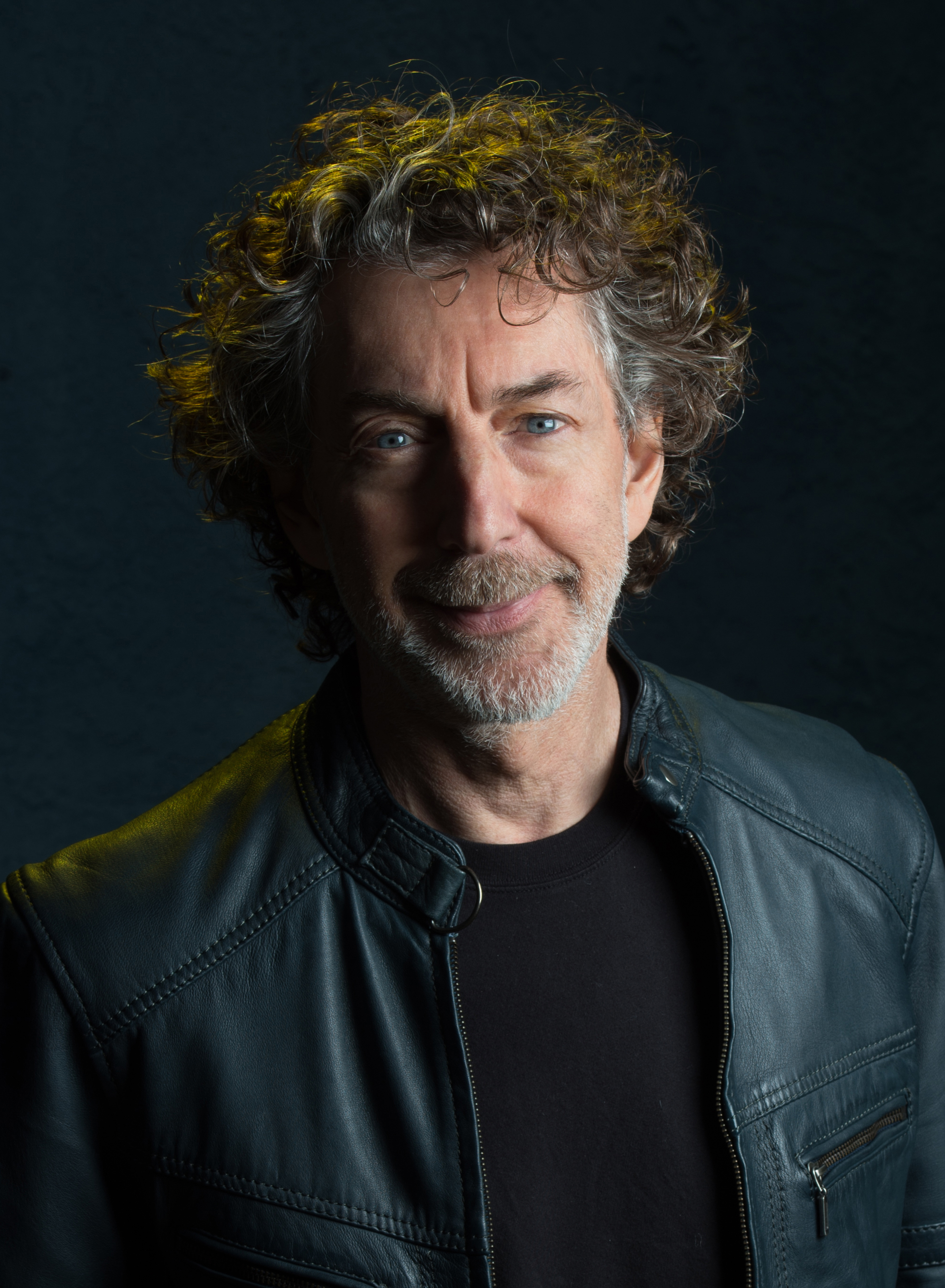 Photo taken for the Protocol 4 album, 2017.